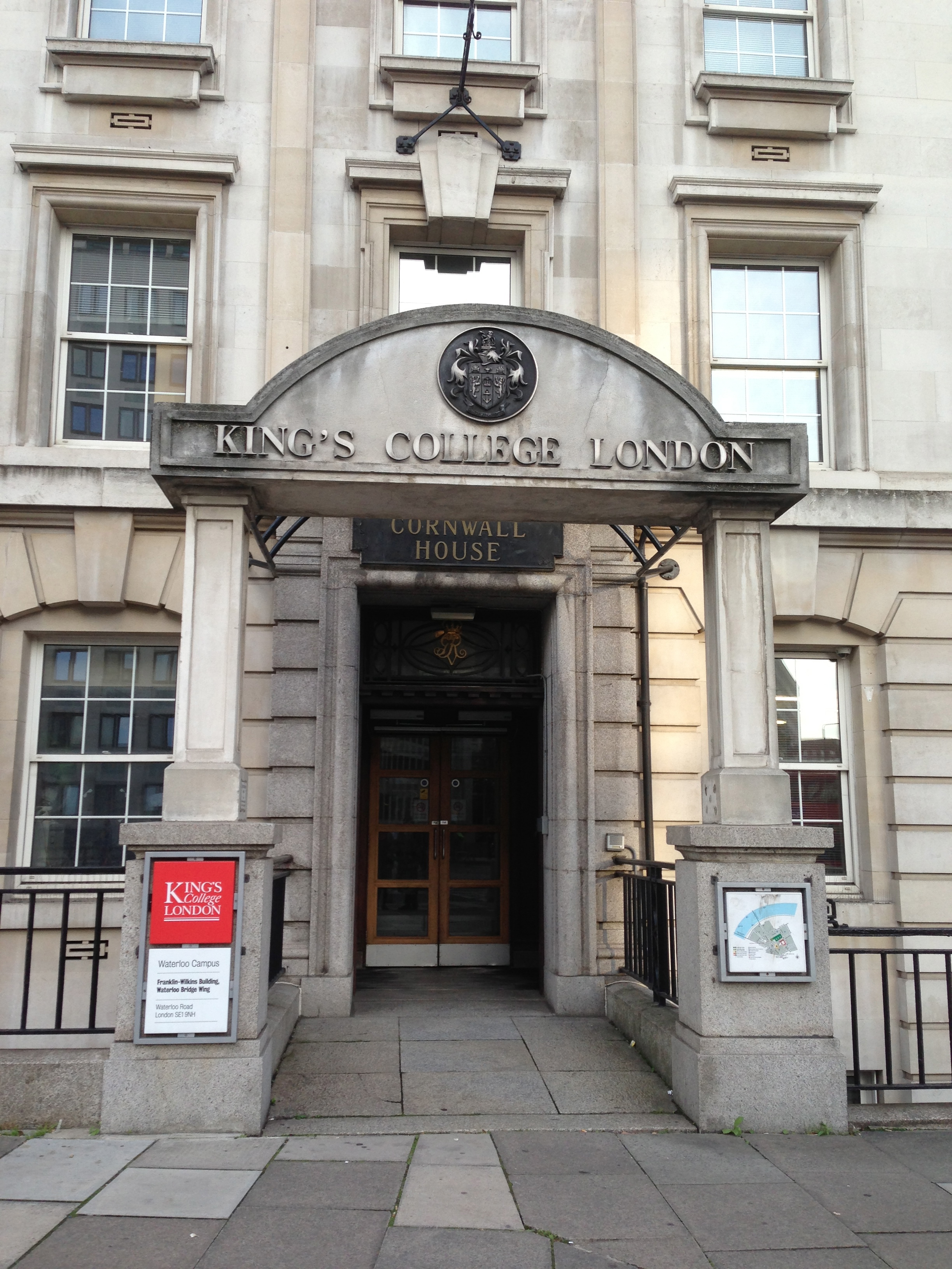 Cornwall House, King's College London Waterloo Campus